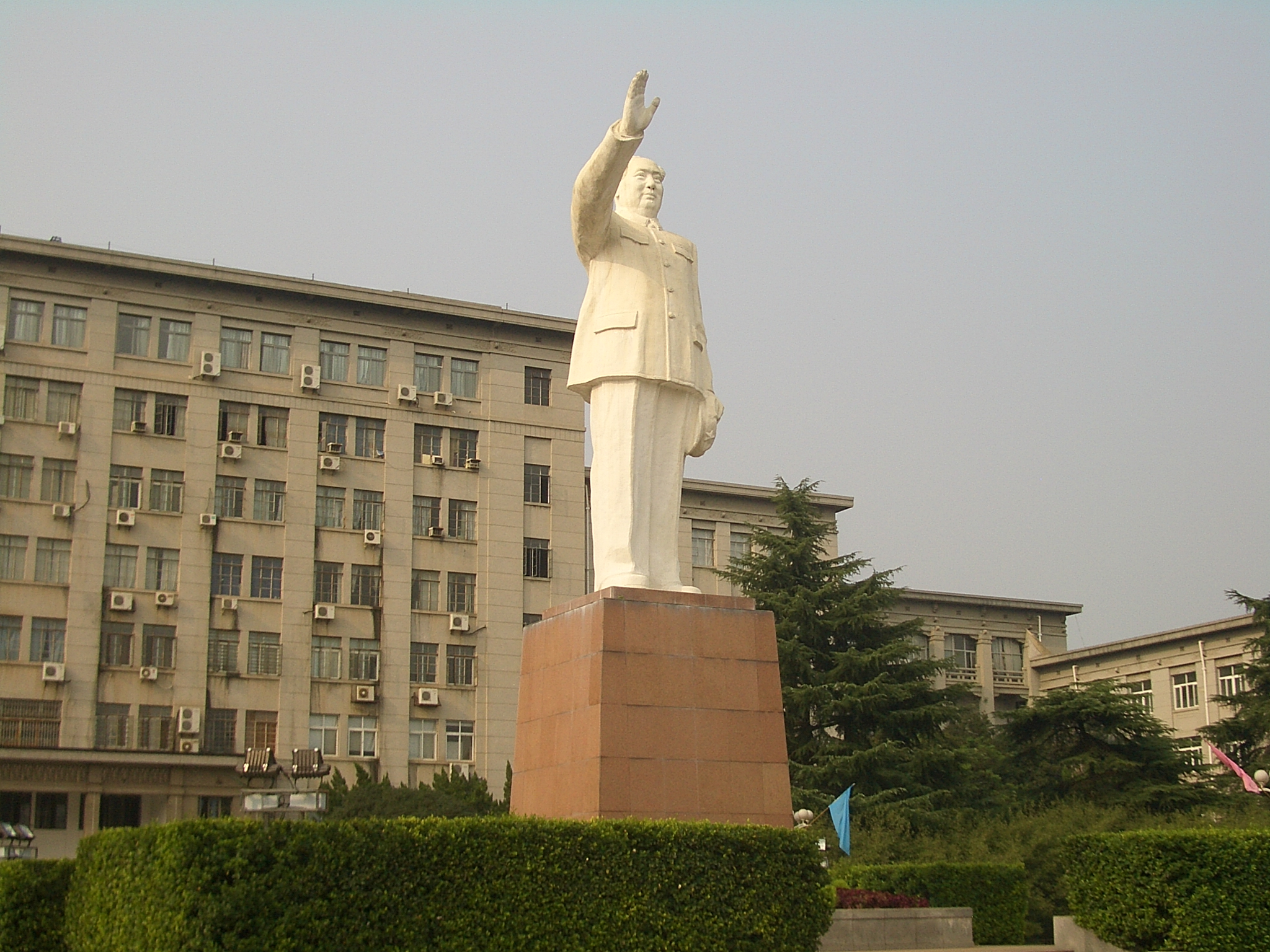 The main building of the Huazhong University of Science and Technology, with the statue of Mao Zedong in front if it, in Wuhan